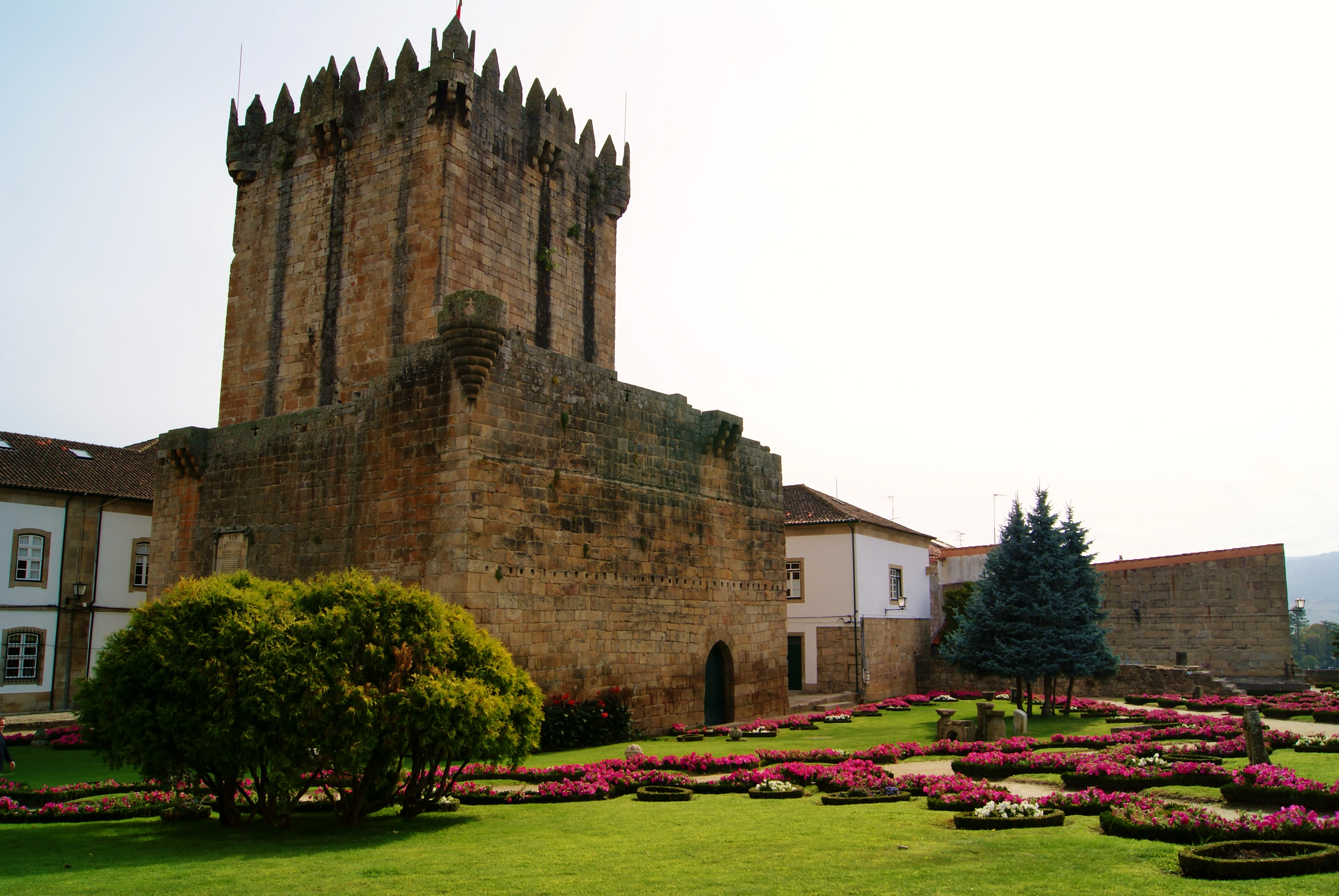 This file was uploaded for Wiki Loves Monuments in Portugal with the unique identifier 70655.